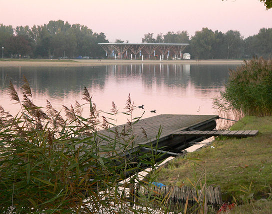 The Allersee with its Columbian EXPO pavillion, Wolfsburg, Lower Saxony, Germany